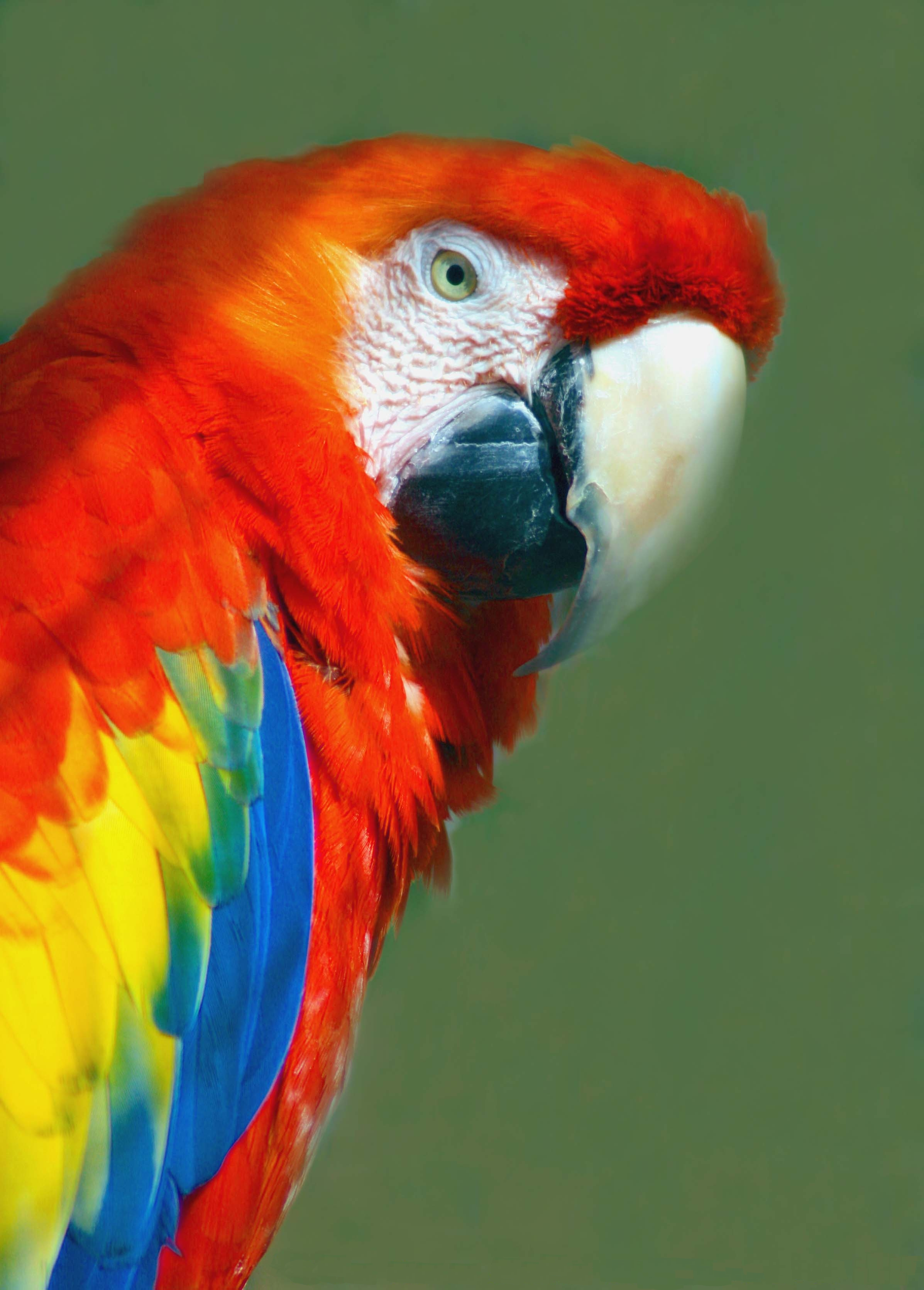 Scarlet Macaw (Ara macao) at Leeds Castle, Kent, England.